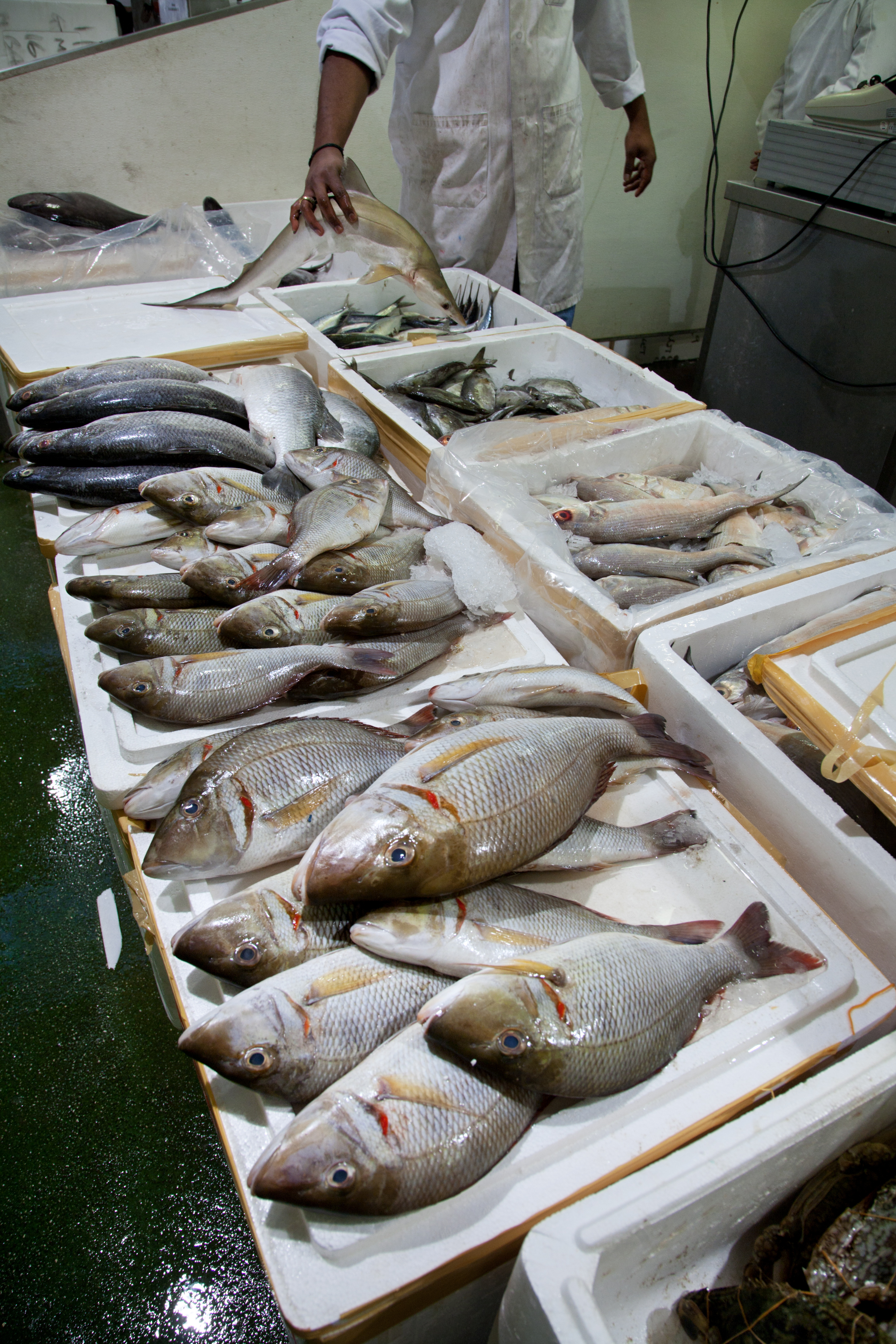 Billingsgate Fish Market, London, UK